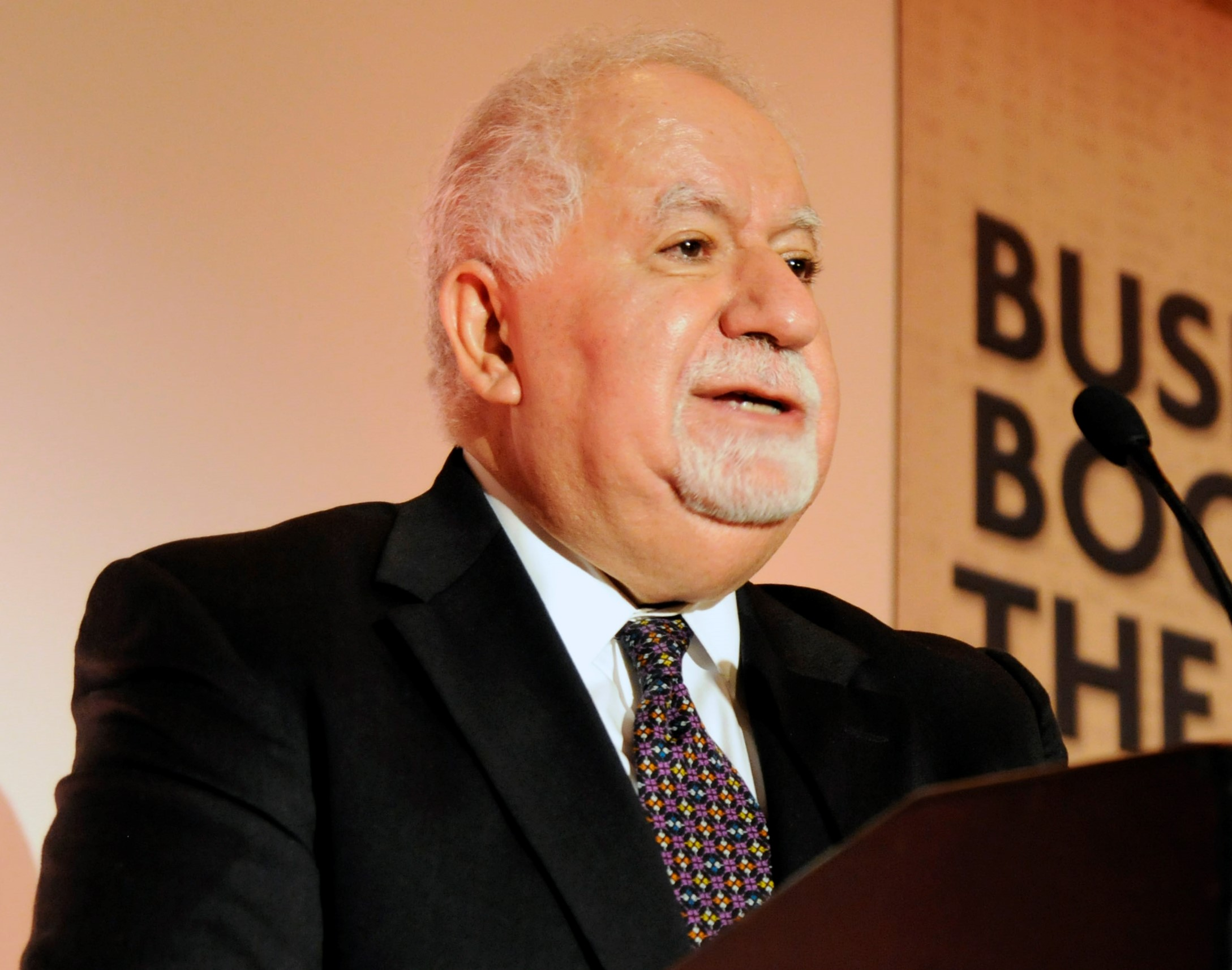 Vartan Gregorian